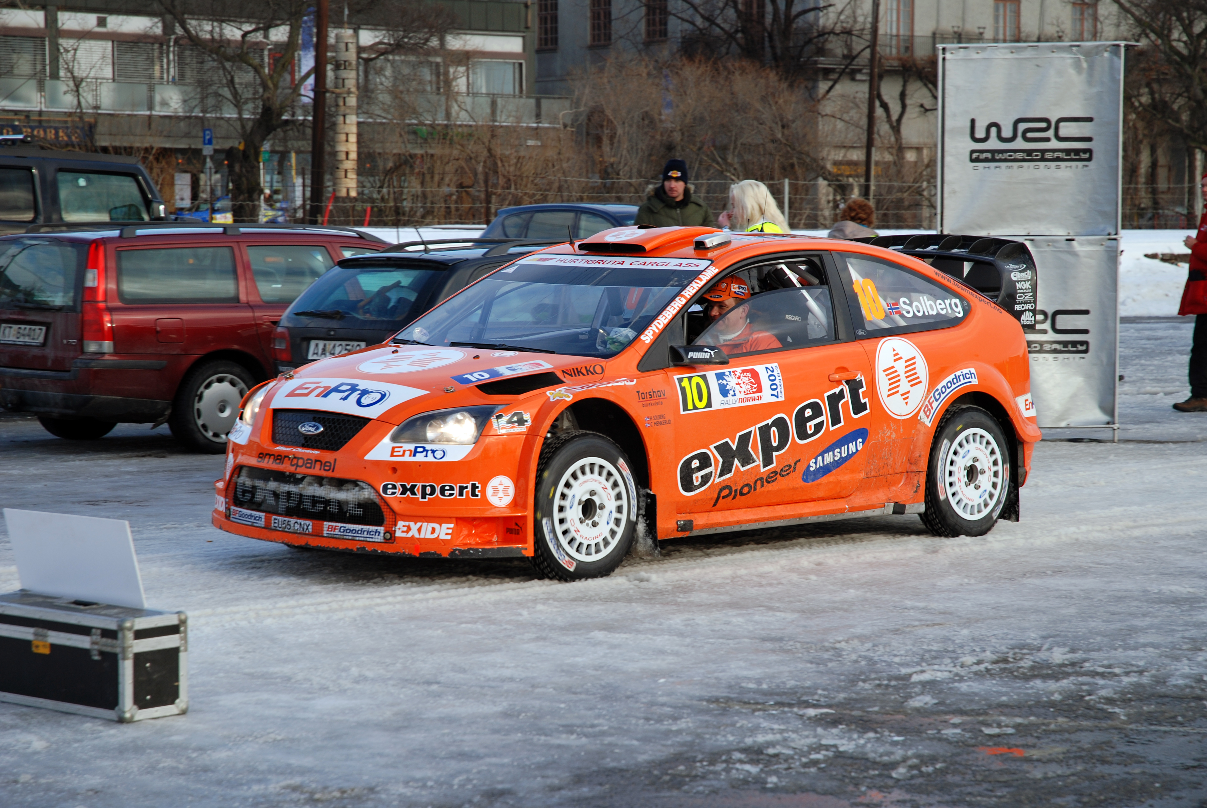 Henning Solberg during Rally Norway 2007, in Hamar, Hedmark, Norway.